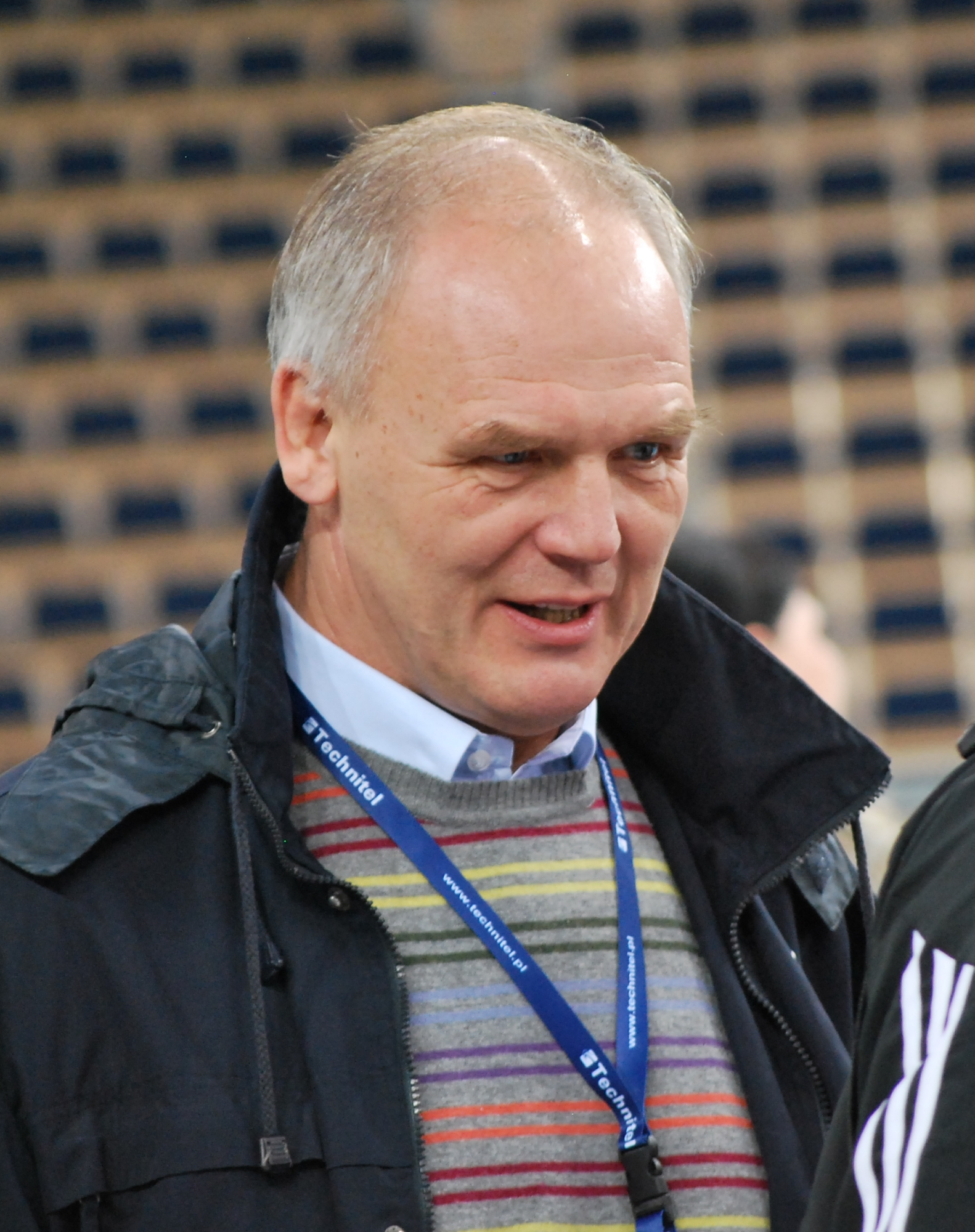 Alojzy Świderek, polish volleyball coach